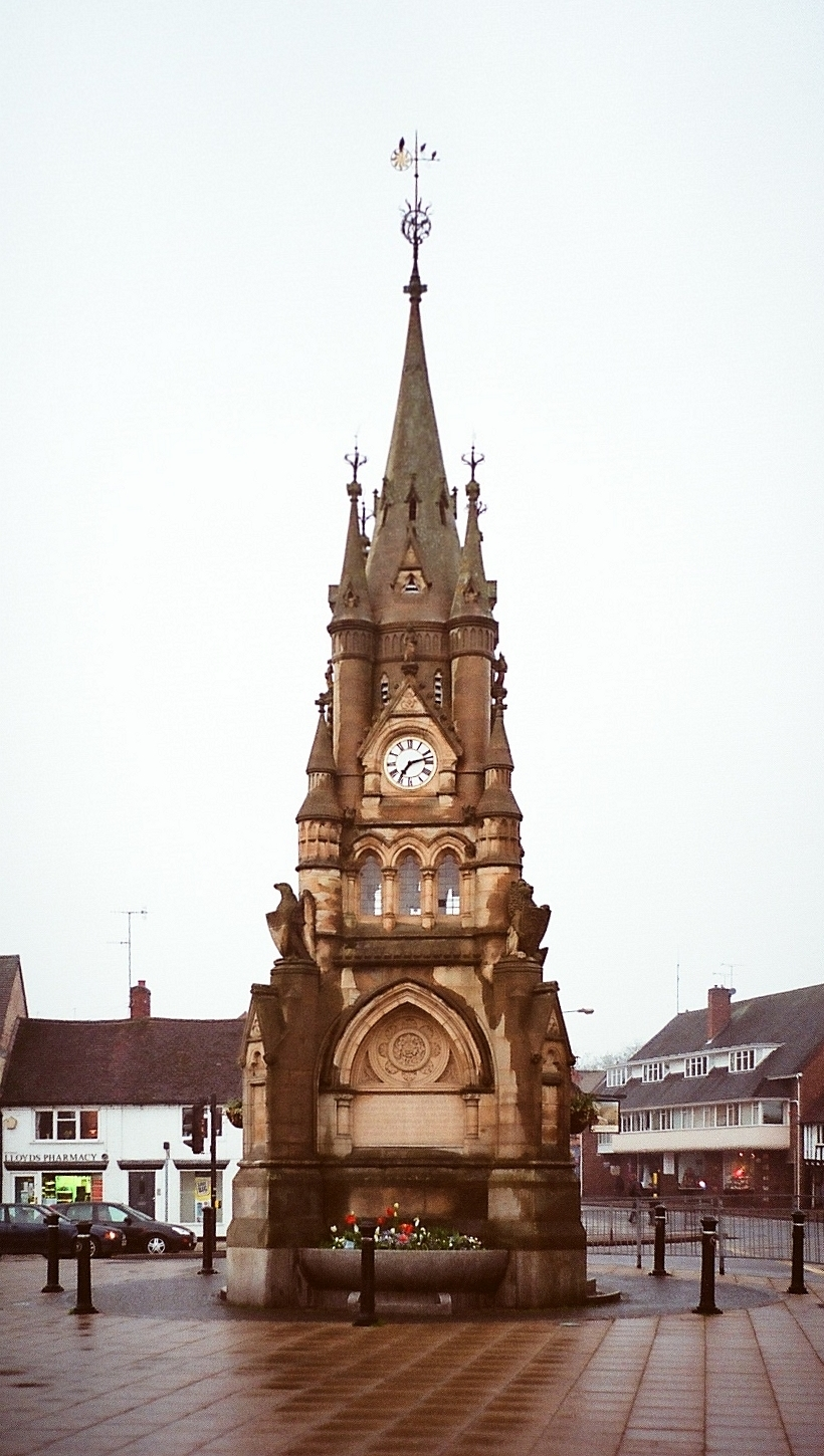 Clock tower, Stratford upon Avon, England